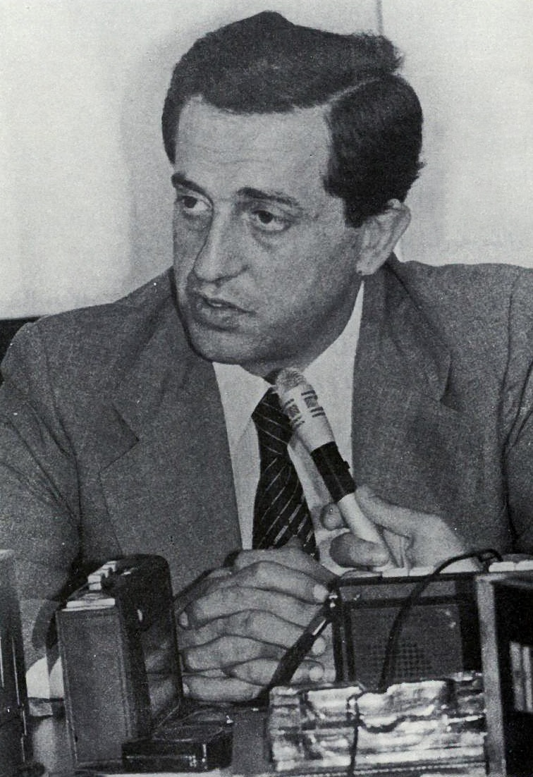 Boutros Harb - 1988 (picture first published in March 1988 in the book of "On the way to the Palace; Presidential Candidates and programs of 1988.)